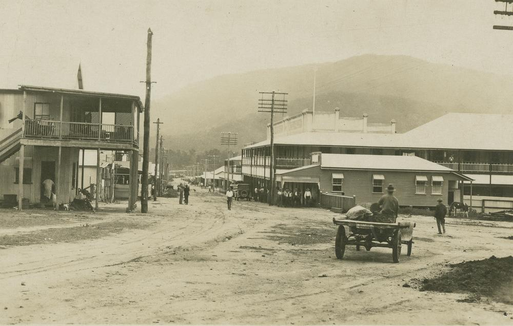 Township of Tully in North Queensland. The first settlement near the present town of Tully was originally called Banyan which was first settled in the 1900s. After the sugar mill and the North Coast railway were built in 1925, a new town called Tully was surveyed. It took its name from nearby Tully River, named in the 1870s after Surveyor William Alcock Tully.